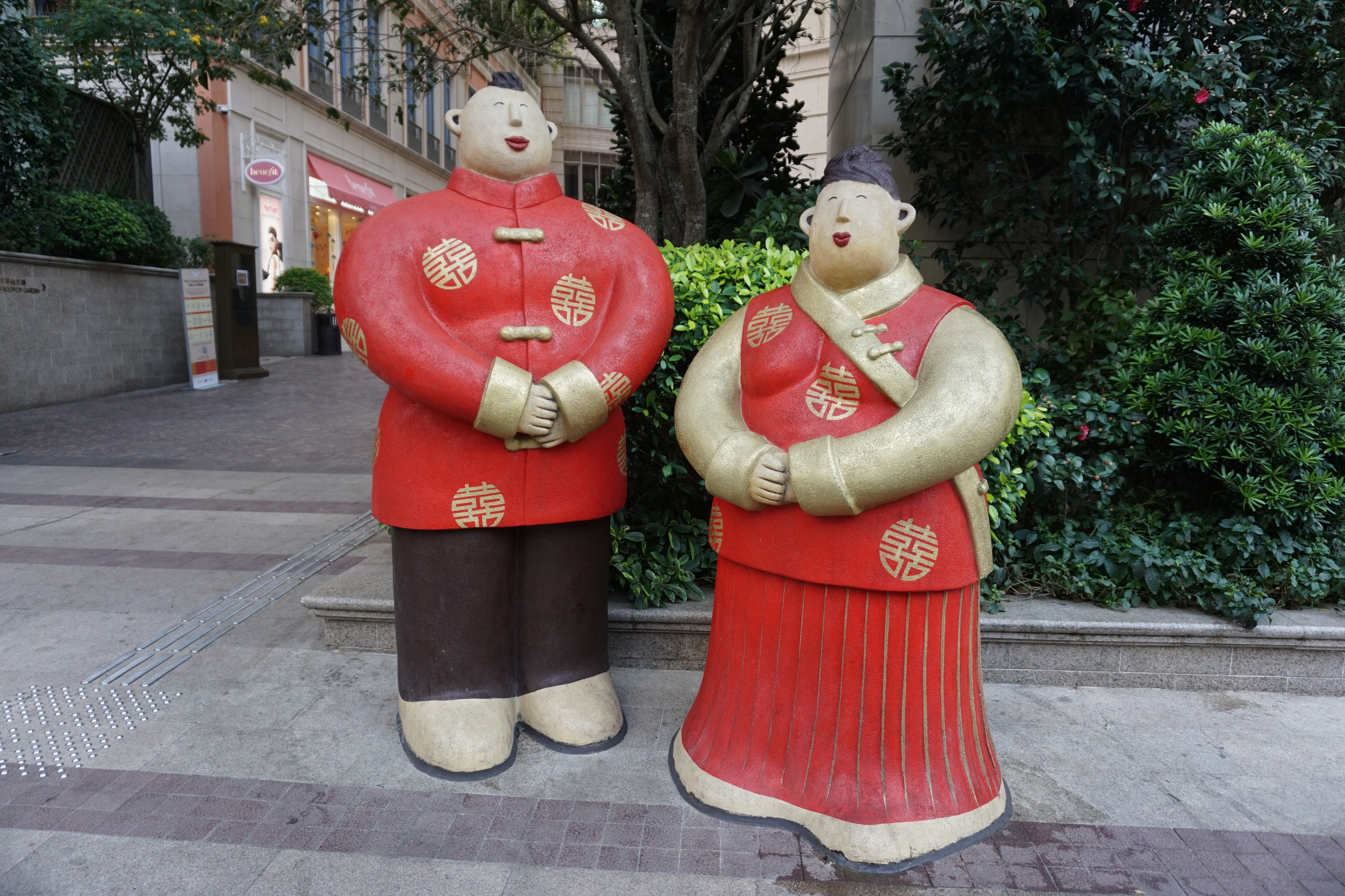 Lee Tung Avenue in Wan Chai, Hong Kong.